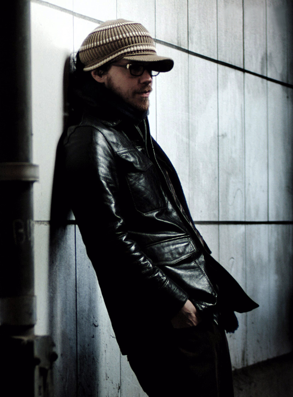 Portrait of music producer Prefuse73 - Scott Herren, taken by foto di matti in Berlin, Ostbahnhof in 2005.